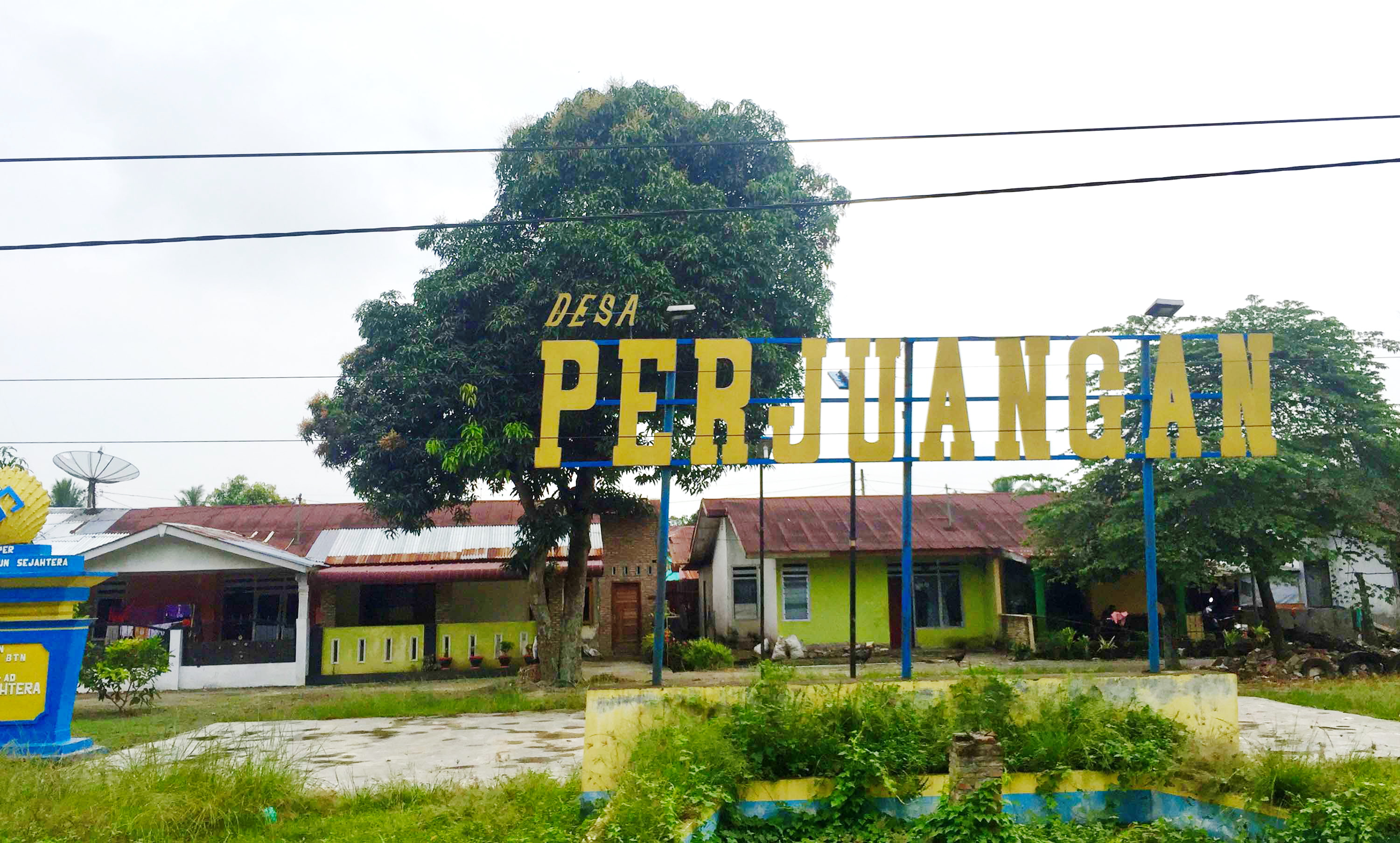 welcome gate to Perjuangan, Sei Balai, Batu Bara